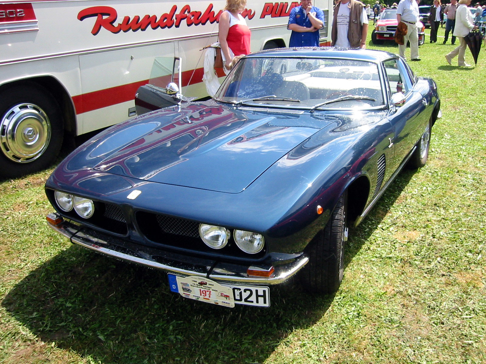 Iso Grifo A3 L